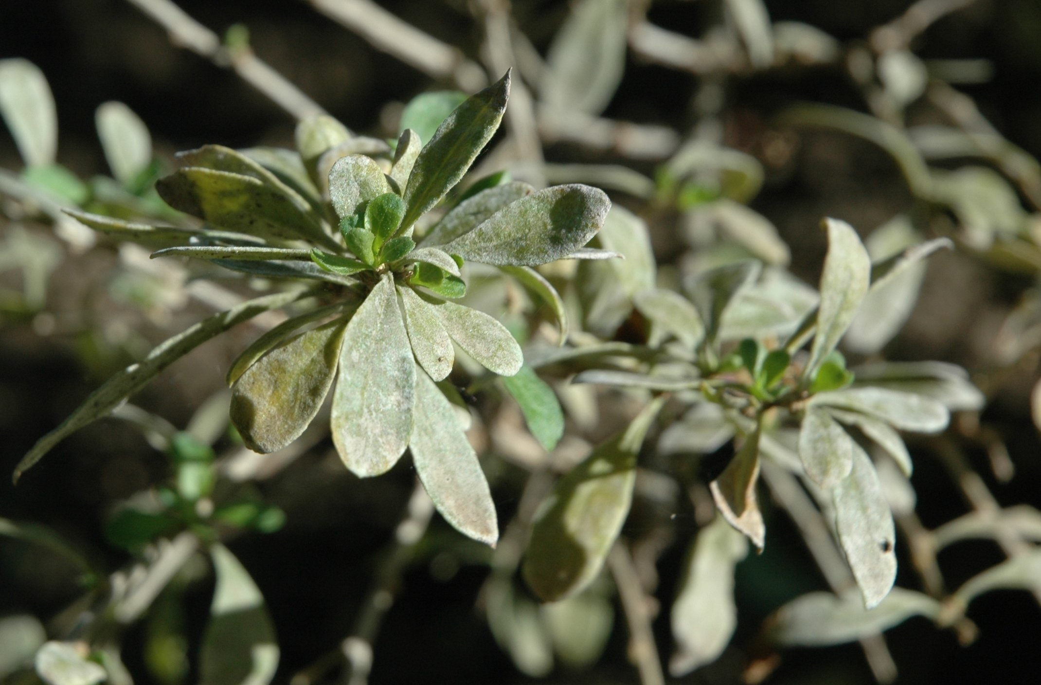 Leaves of Anisodus luridus at Jena Botanical Garden, Germany